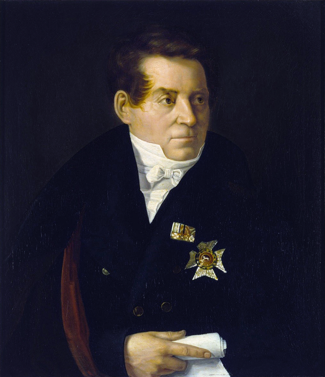 Portrait of August Wilhelm von Schlegel (1767-1845) by Adolf Hohneck